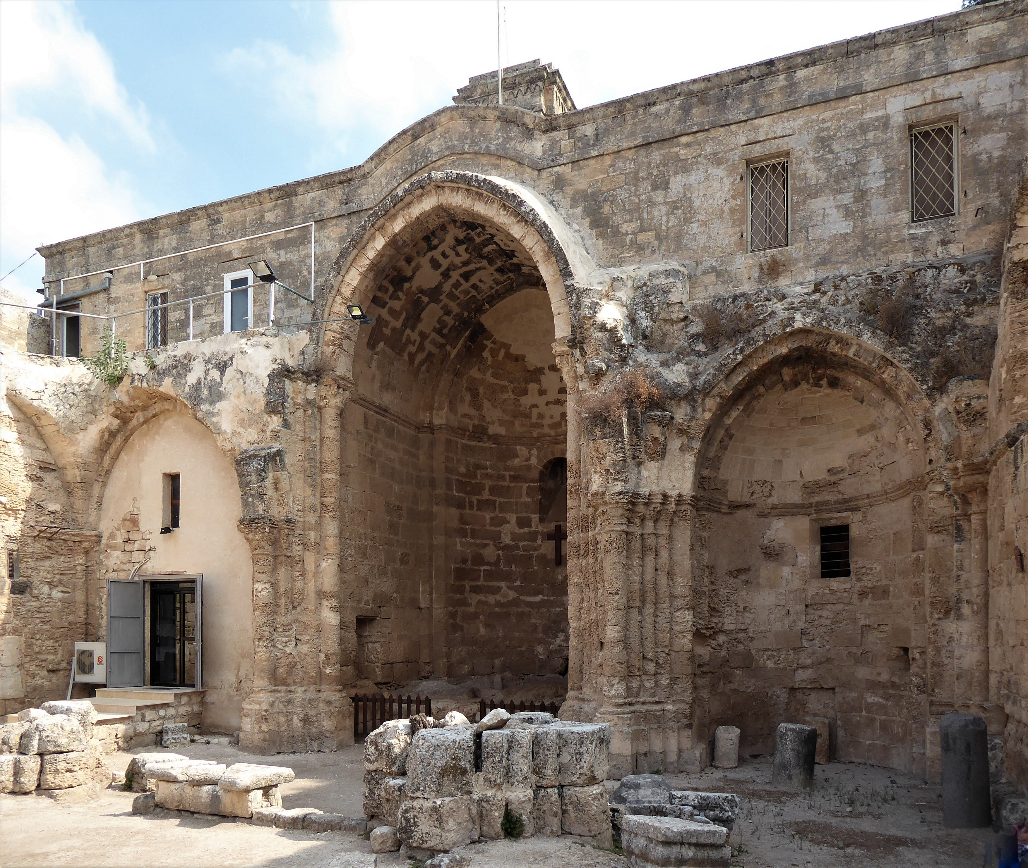 St Anne's Church, Tzippori